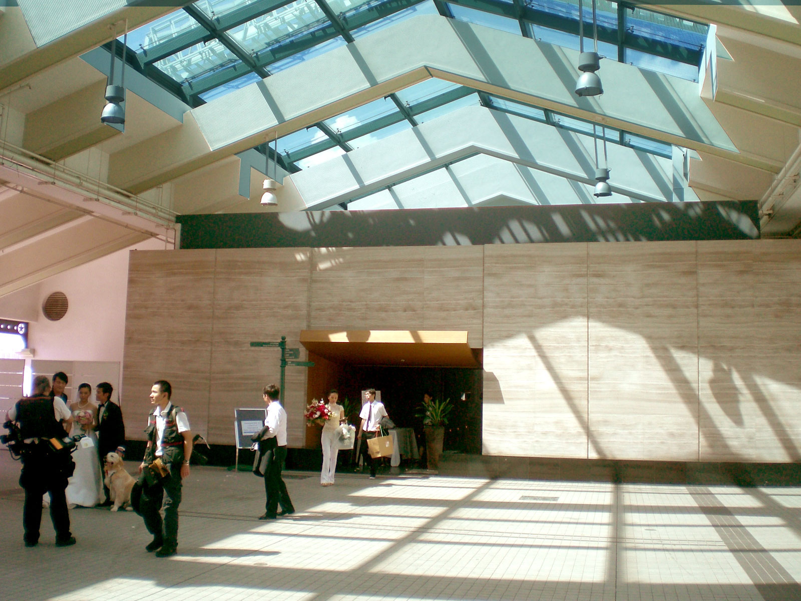 第四代中環天星碼頭頂層西餐廳正門前地